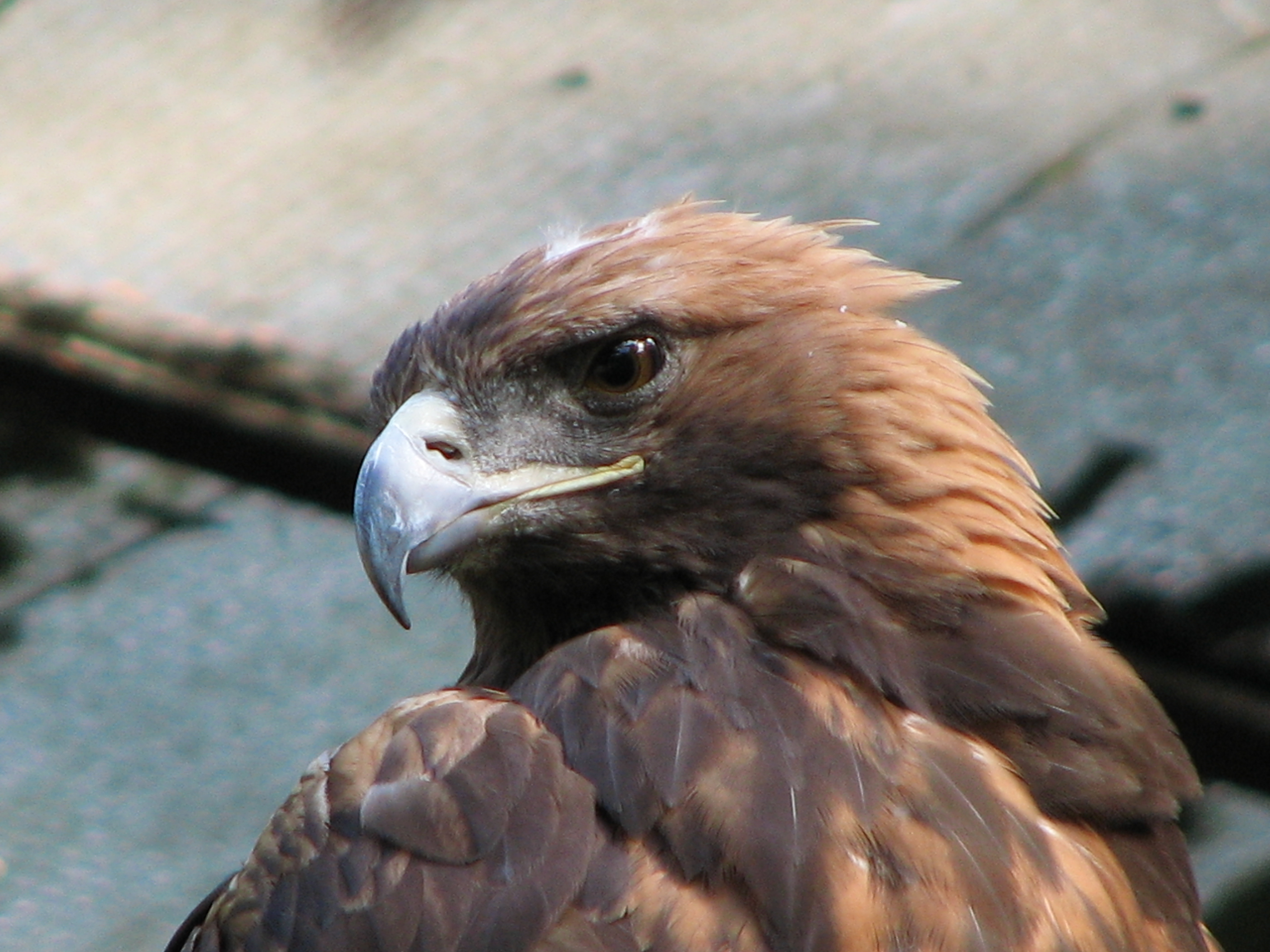 Golden eagle (Aquila chrysaetos), Tierpark Berlin, Germany.